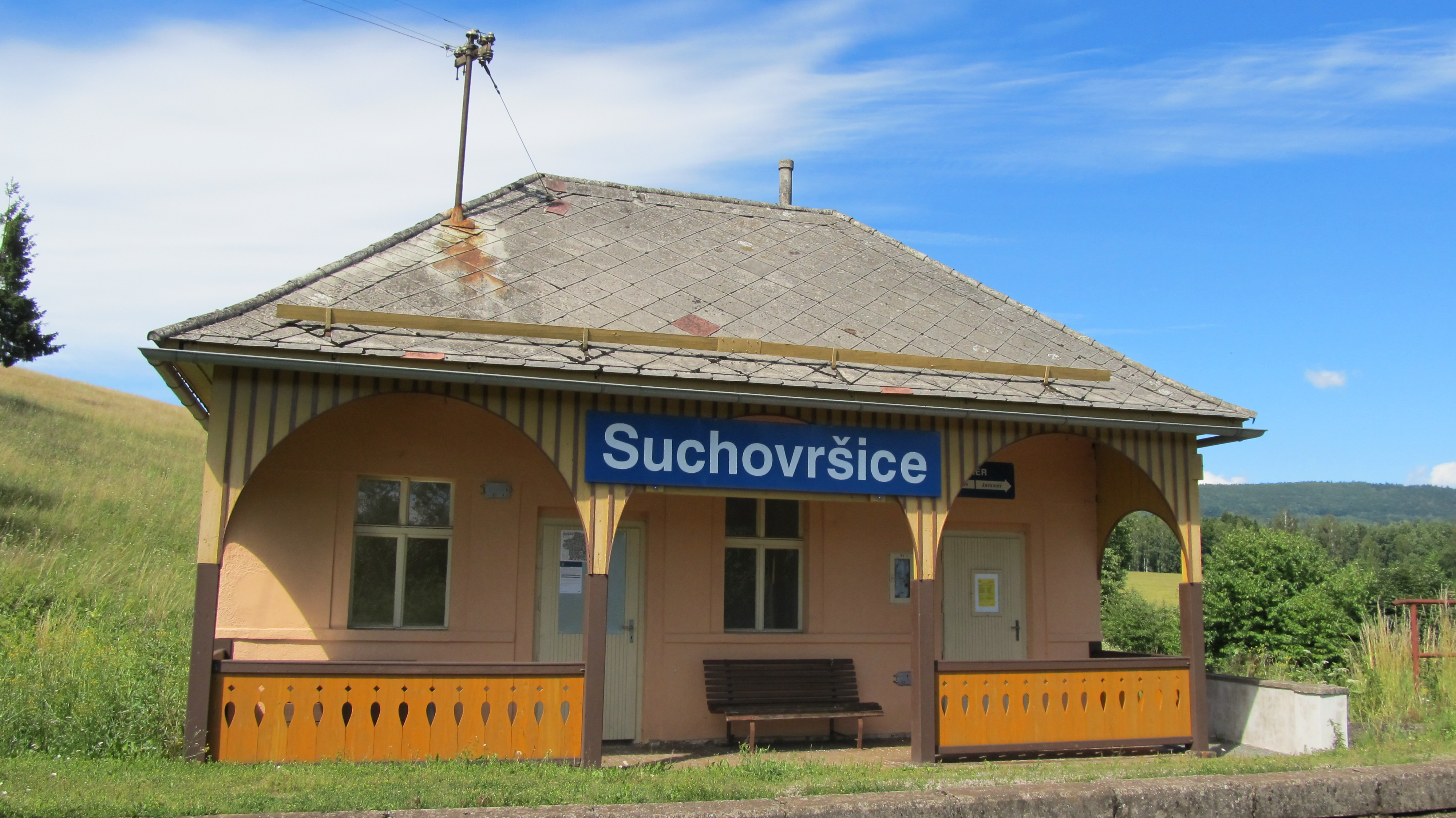 Railway station in Suchovršice